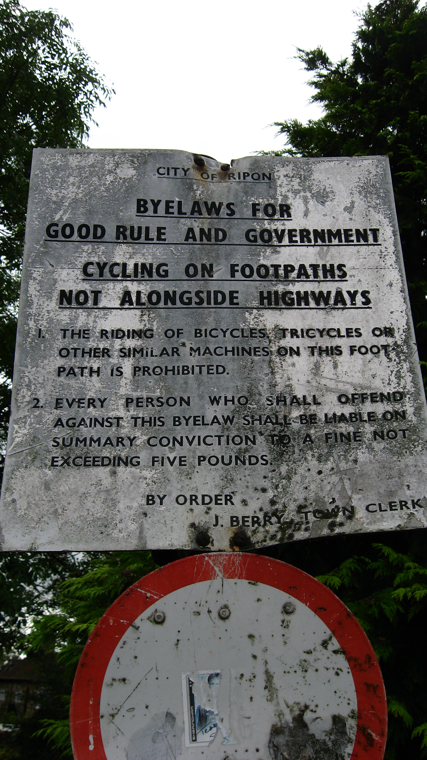 Sign in a car park in Ripon, North Yorkshire